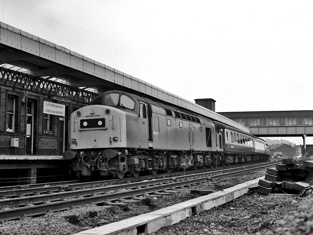 British Railways English Electric Type 4 1Co-Co1 class 40 diesel-electric locomotive number 40157 of Crewe DTMD arrives on platform 1 at Llandudno Junction station with the 14:40 Llandudno to Manchester Victoria (1J22) (formed M5576, M5610, M5522, M5545, M13517 and M92063). Sunday 29th May 1983